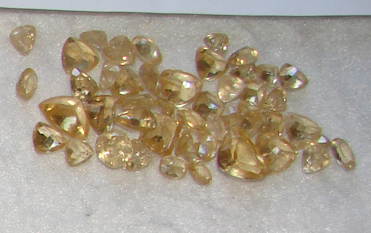 Scheelite from Minas Gerais, Brazil. Gem cutting by Afonso Marques